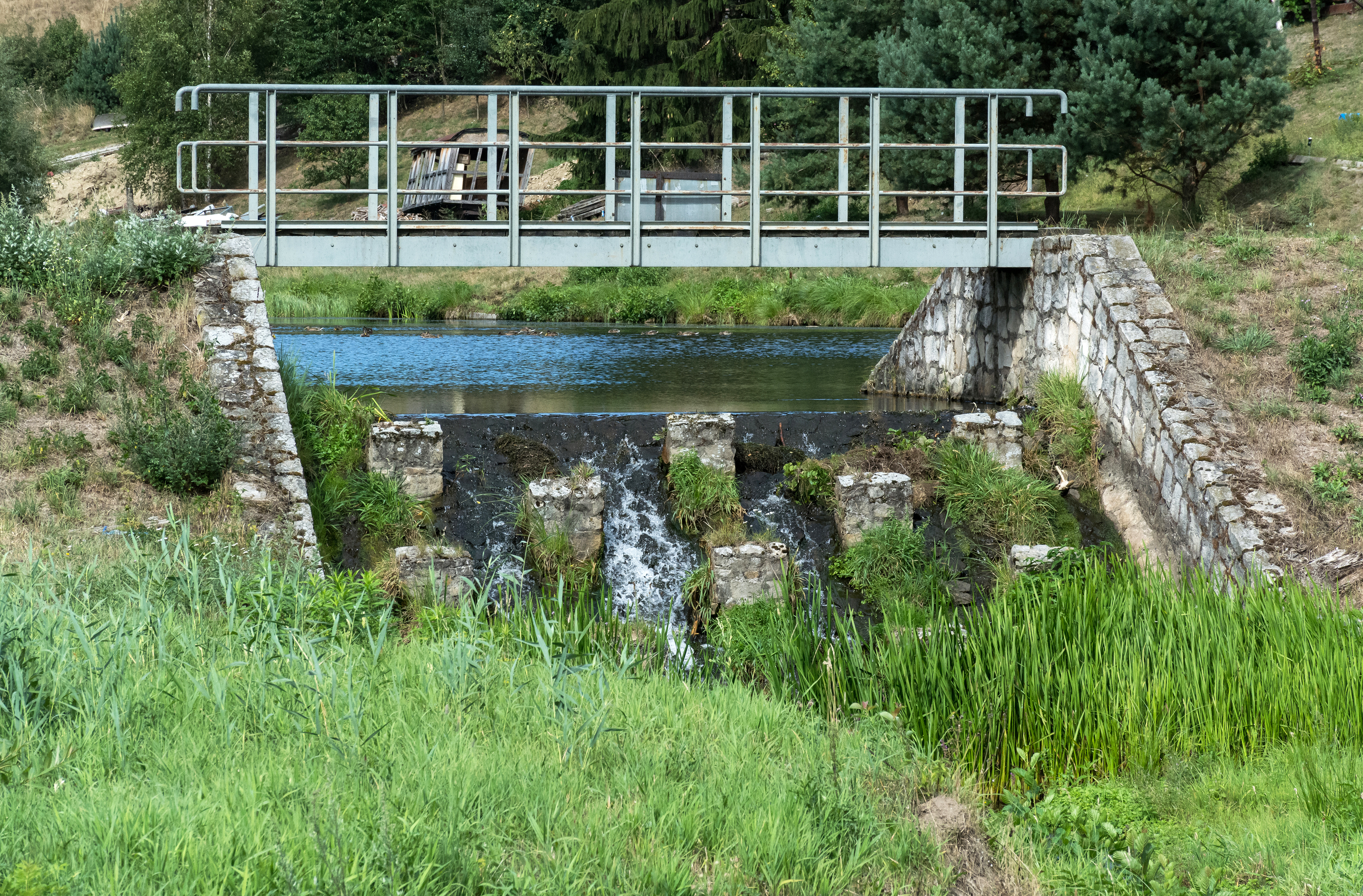 Dam in Chocieszów